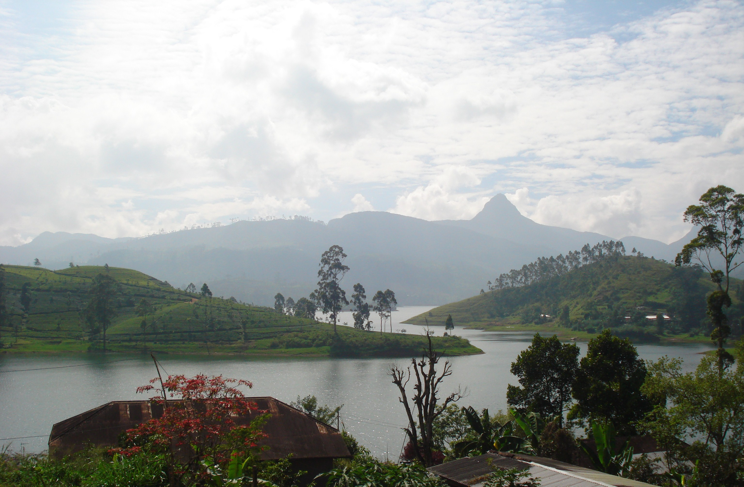 A view of Sri Paada (Adam's Peak) from Maskeliya